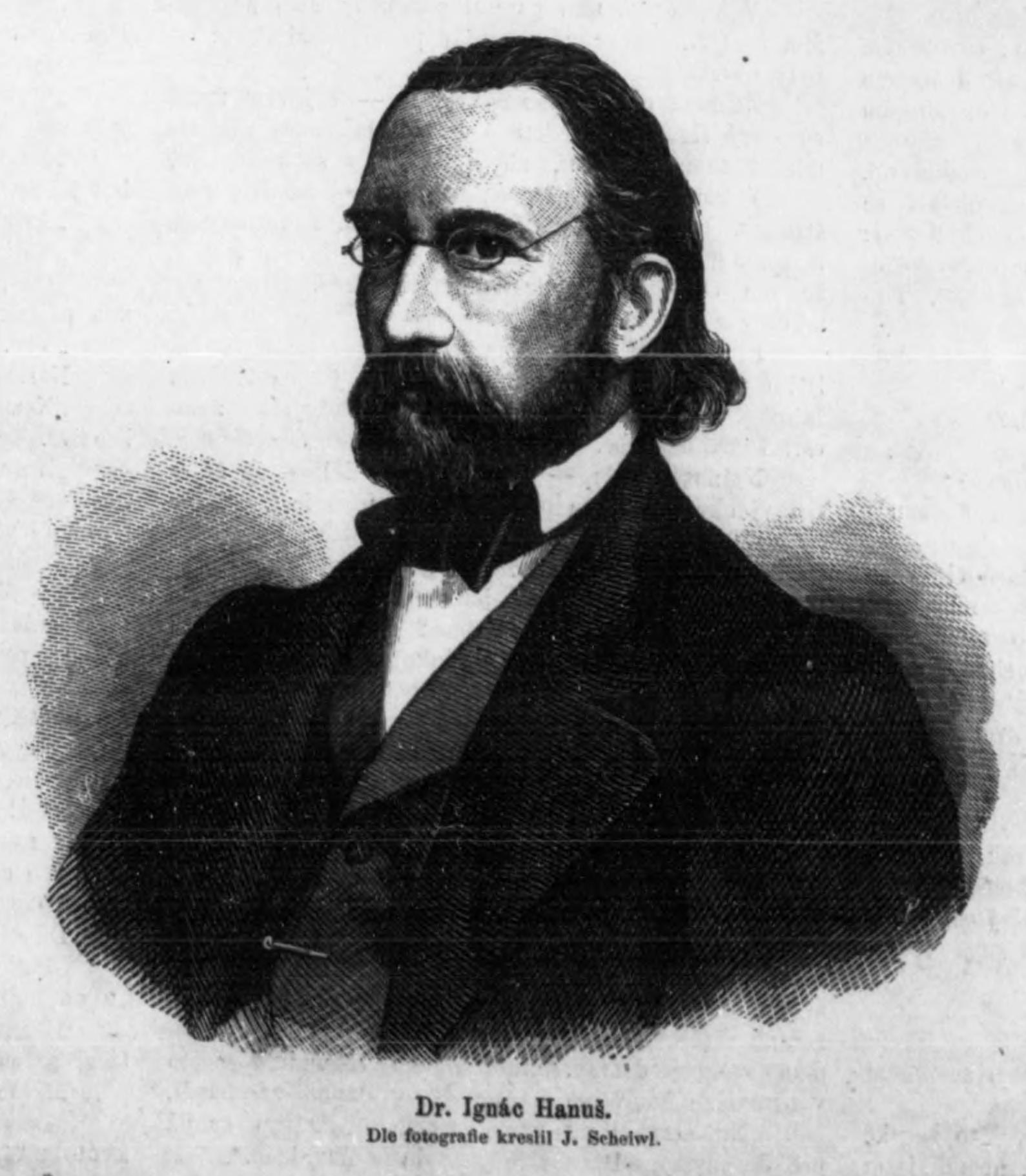 Portrait of Ignác Jan Hanuš (1812 - 1869), Czech Slavist. His works in German are signed "Ignaz Johann Hanusch".